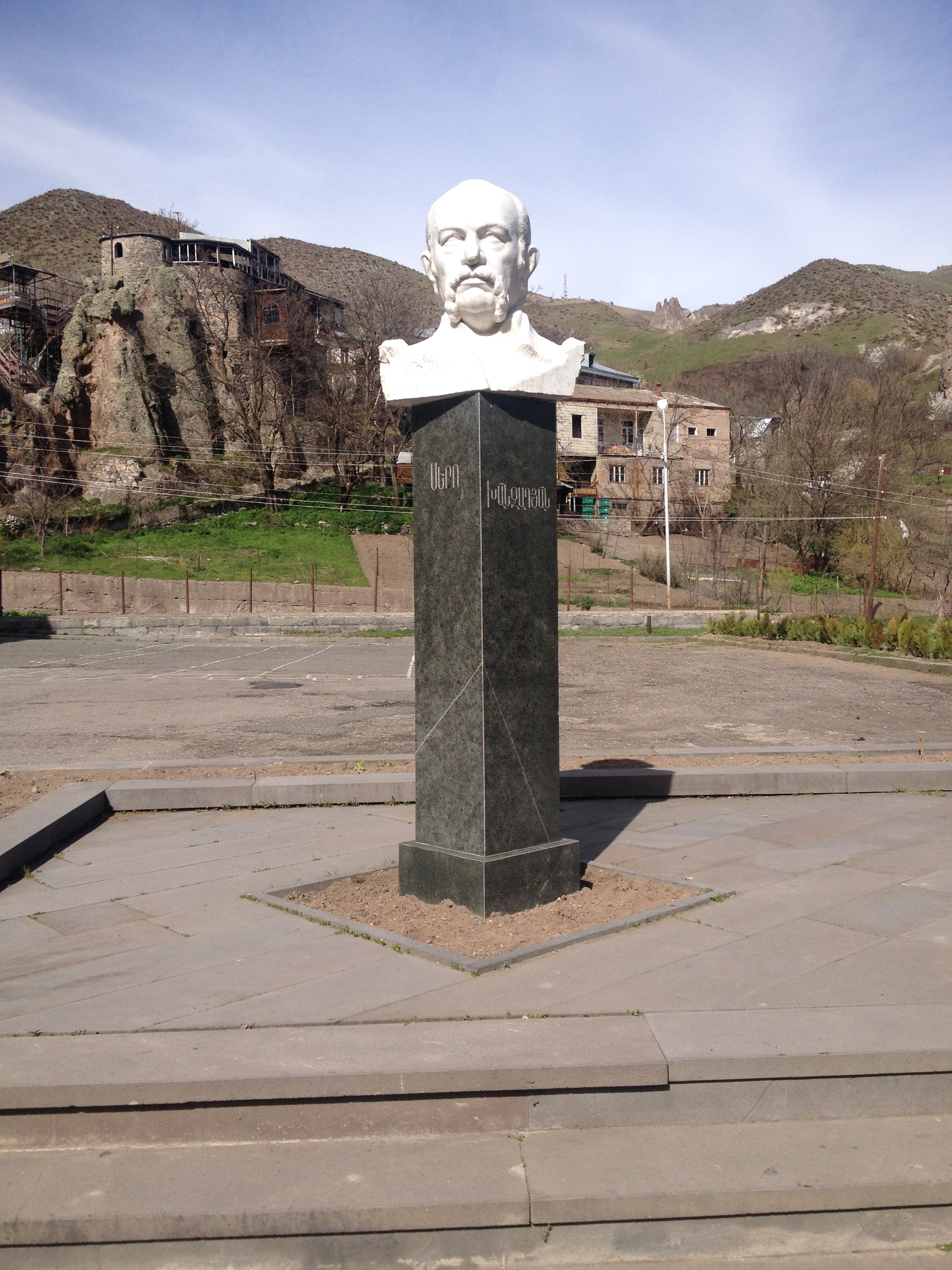 Monument to Sero Nikolai Khanzadyan in Goris